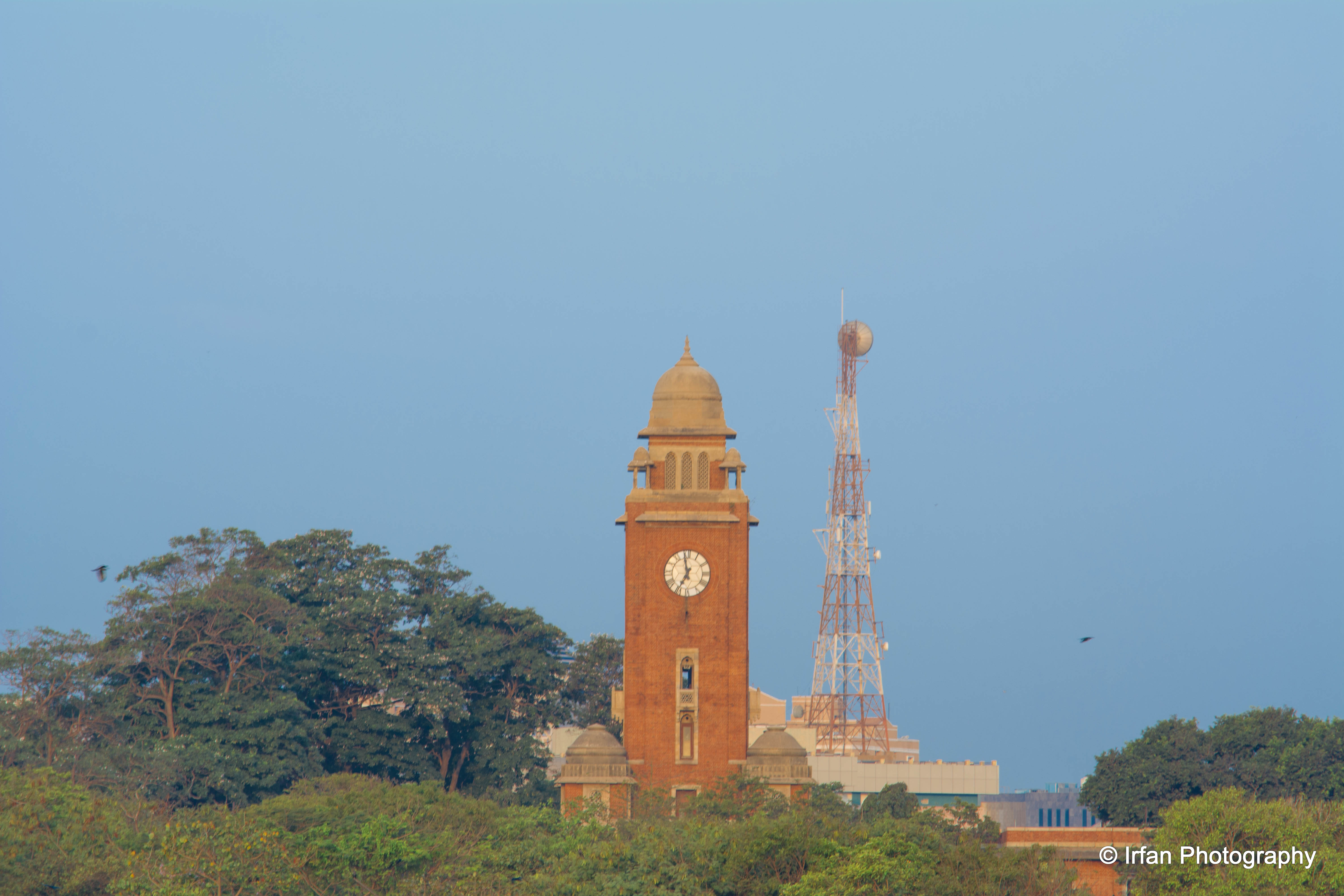 Madras University Chennai as seen from Marina beach clicked by Irfan Ahmed Photography